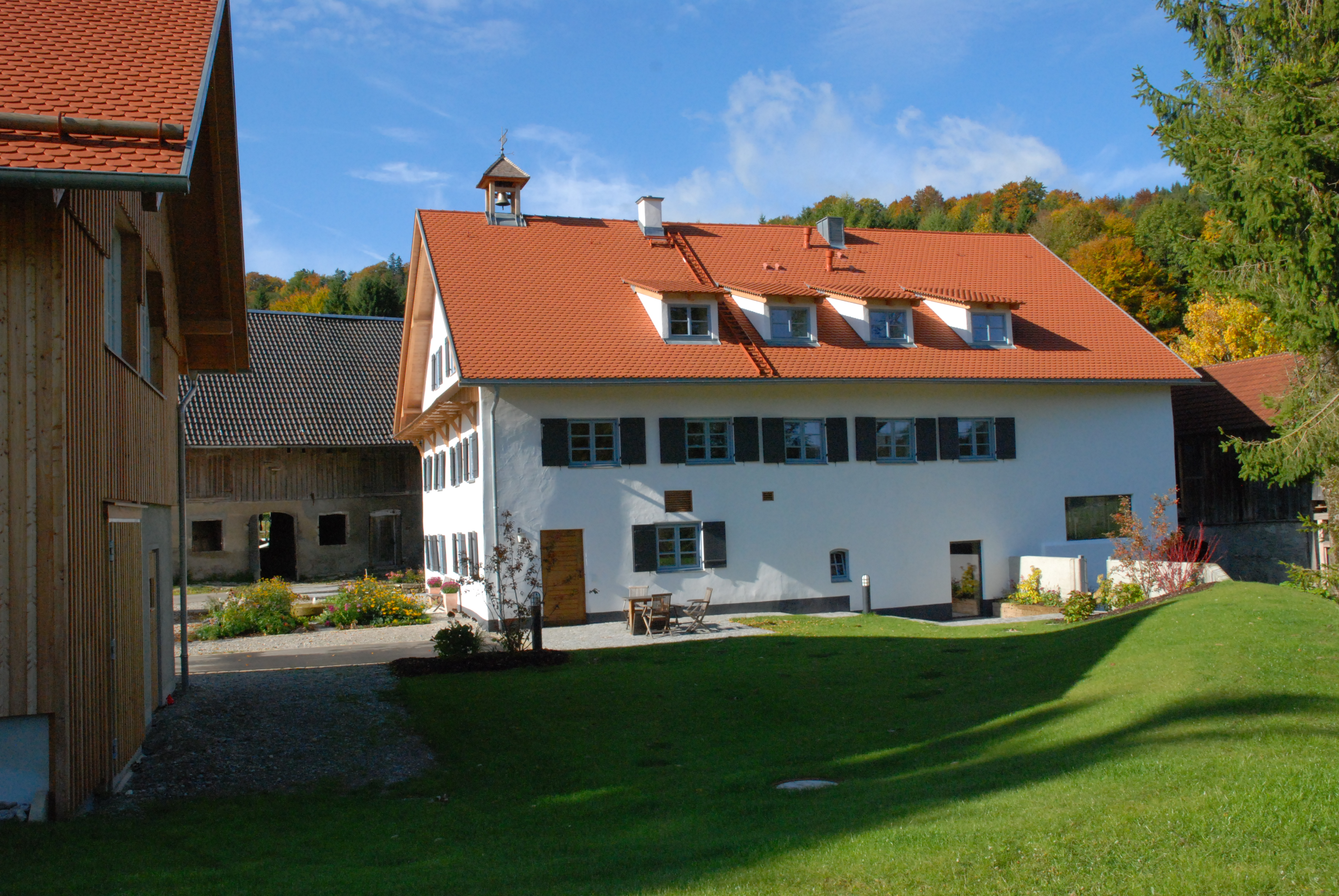 Mill of castle Liebenthann, northern view, historic saw mill, excursion restaurant, holiday flat